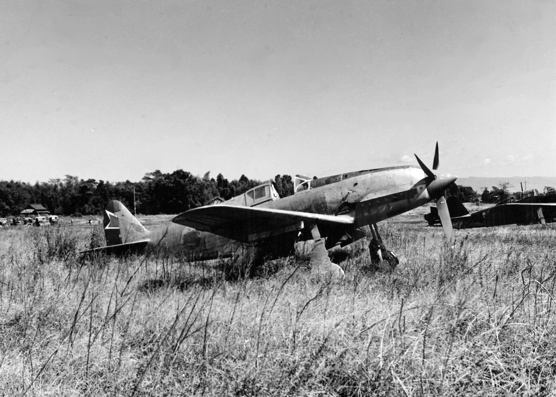 A Japanese Kawasaki Ki-61 "Tony" pictured at Kengun Airfield, Kumamoto Prefecture, Kyūshū Island (Japan).